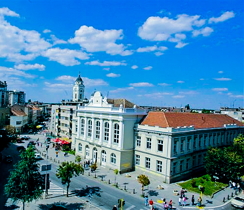 This is the center of Smederevo